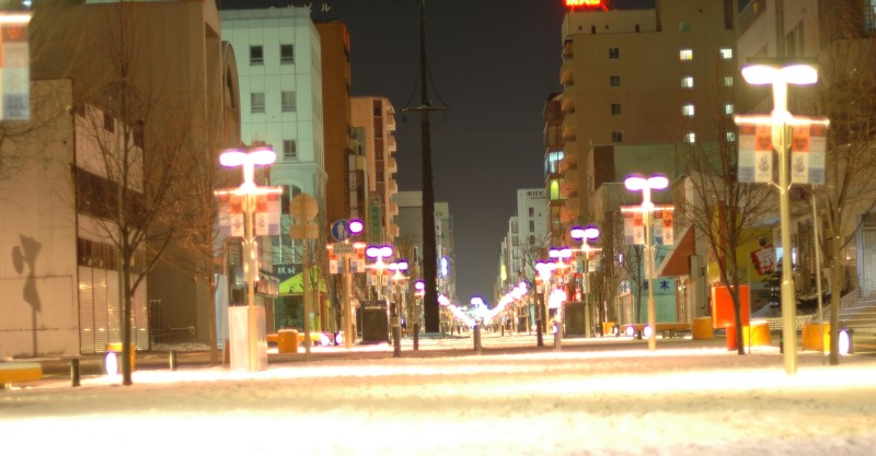 Kaimonokouen, Asahikawa, Hokkaido, Japan on Dec 2005. 買物公園 (北海道旭川市) 、 8条通側から駅側へ撮影、2005年12月撮影 Photographer ほくなん, this work is in PD